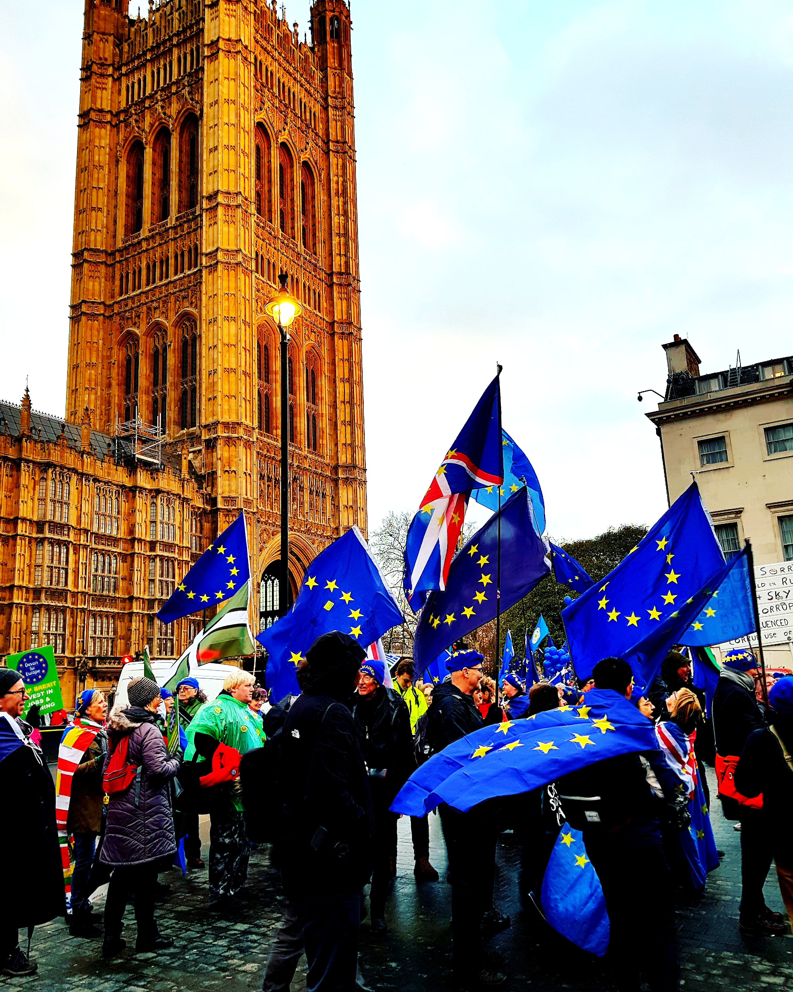 Westminster 13th March 2019